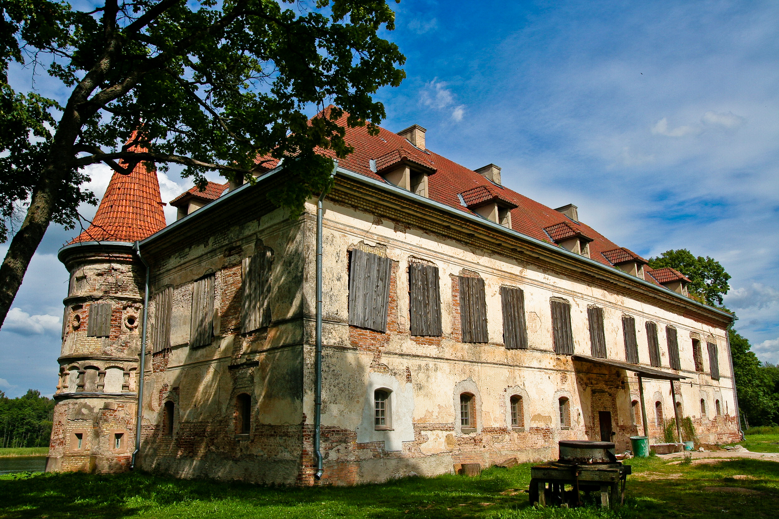 Reconstructed Siesikai (Daugailiai) Castle